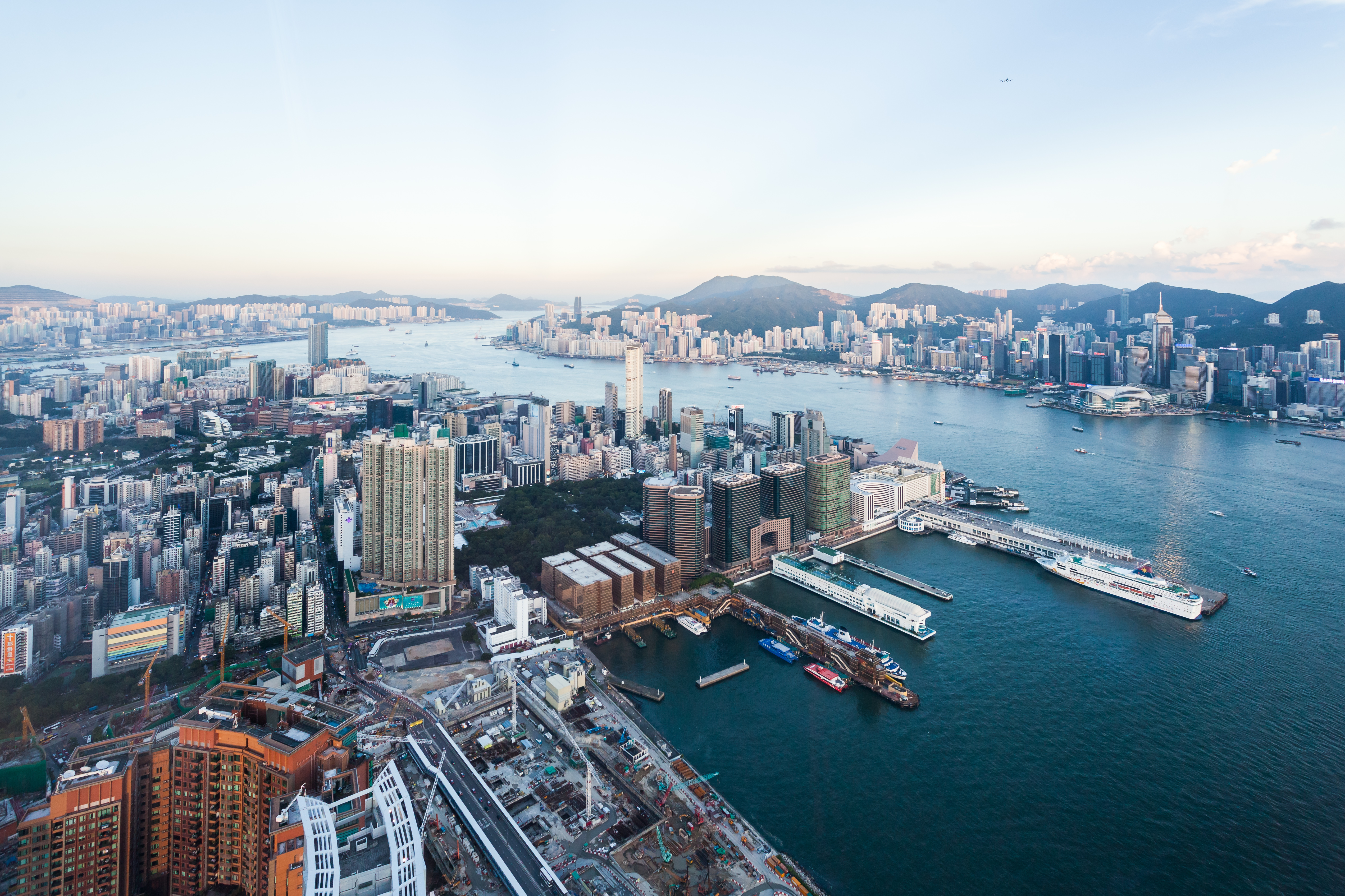 View of Victoria Harbour from Sky100, Hong Kong